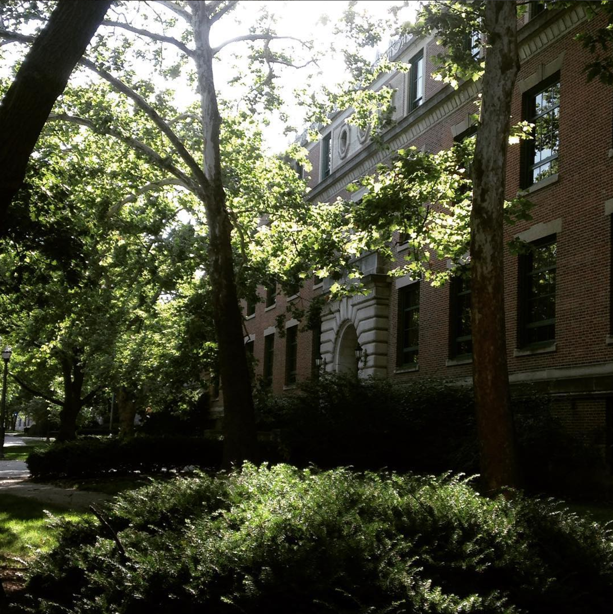 Location of CURA